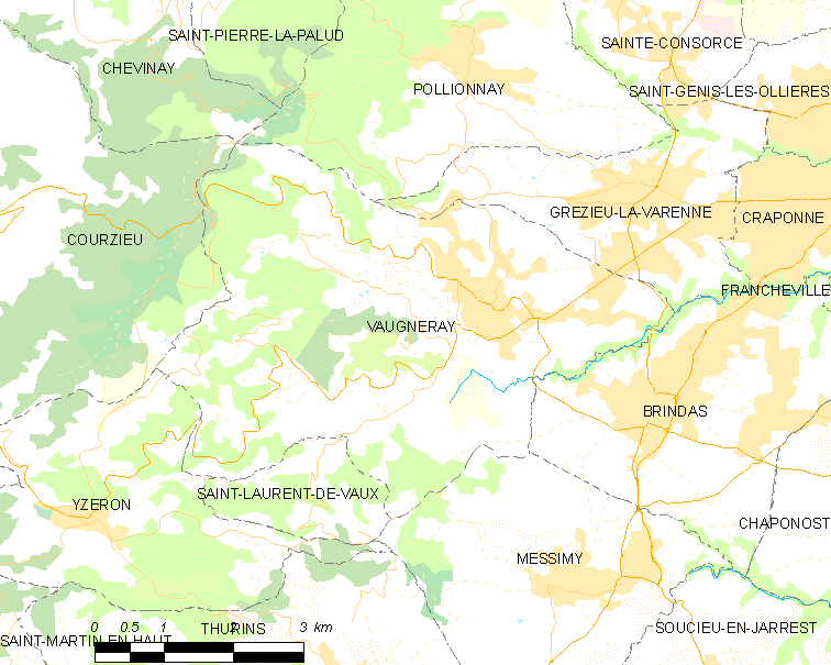 Map of French municipality